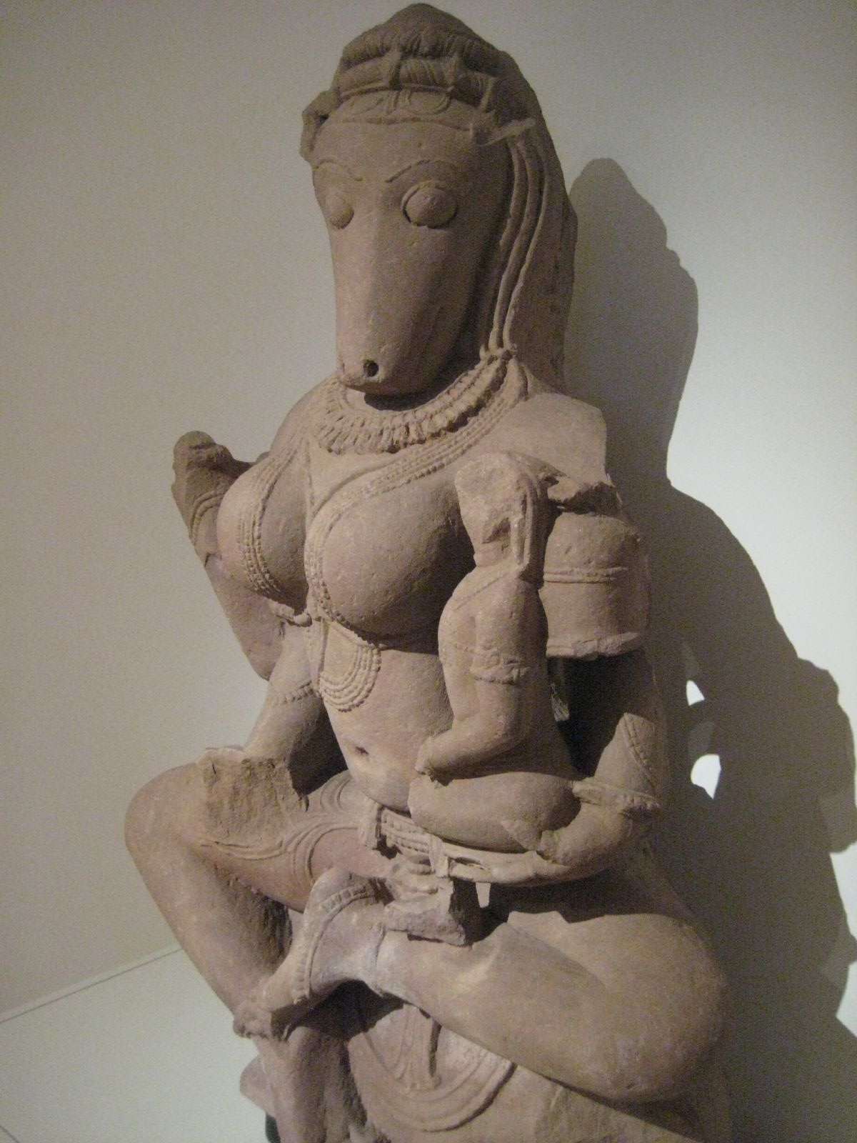 India, Uttar Pradesh or Madhya Pradesh 11th century Beige sandstone Item number: 1997.708